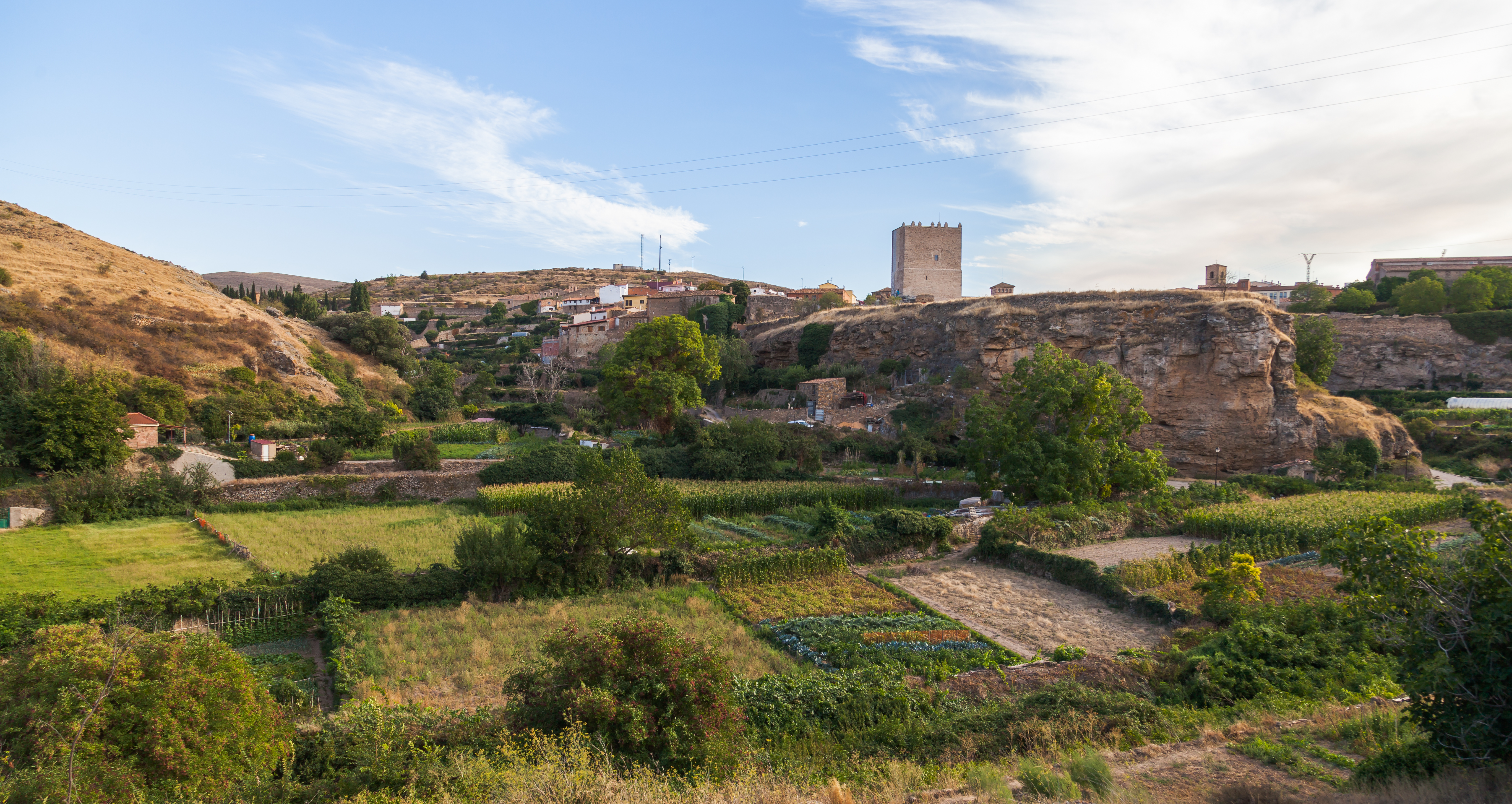 Moorish quarter, Ágreda, Spain